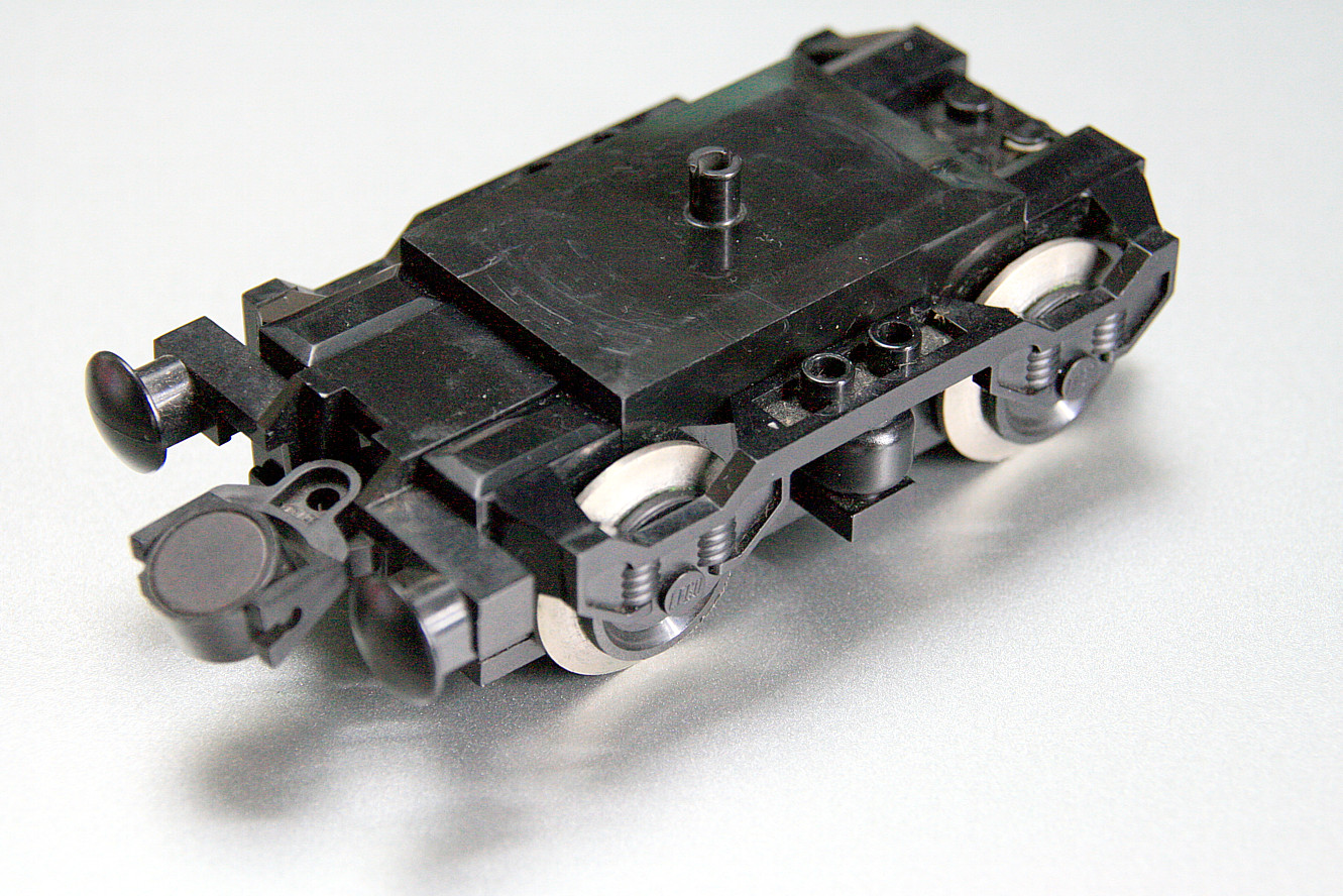 LEGO 9v Train Motor. Scratches and dirt are deemed to be unremovable, as age/lifespan of this motor is currently 16 years, as of 2008.